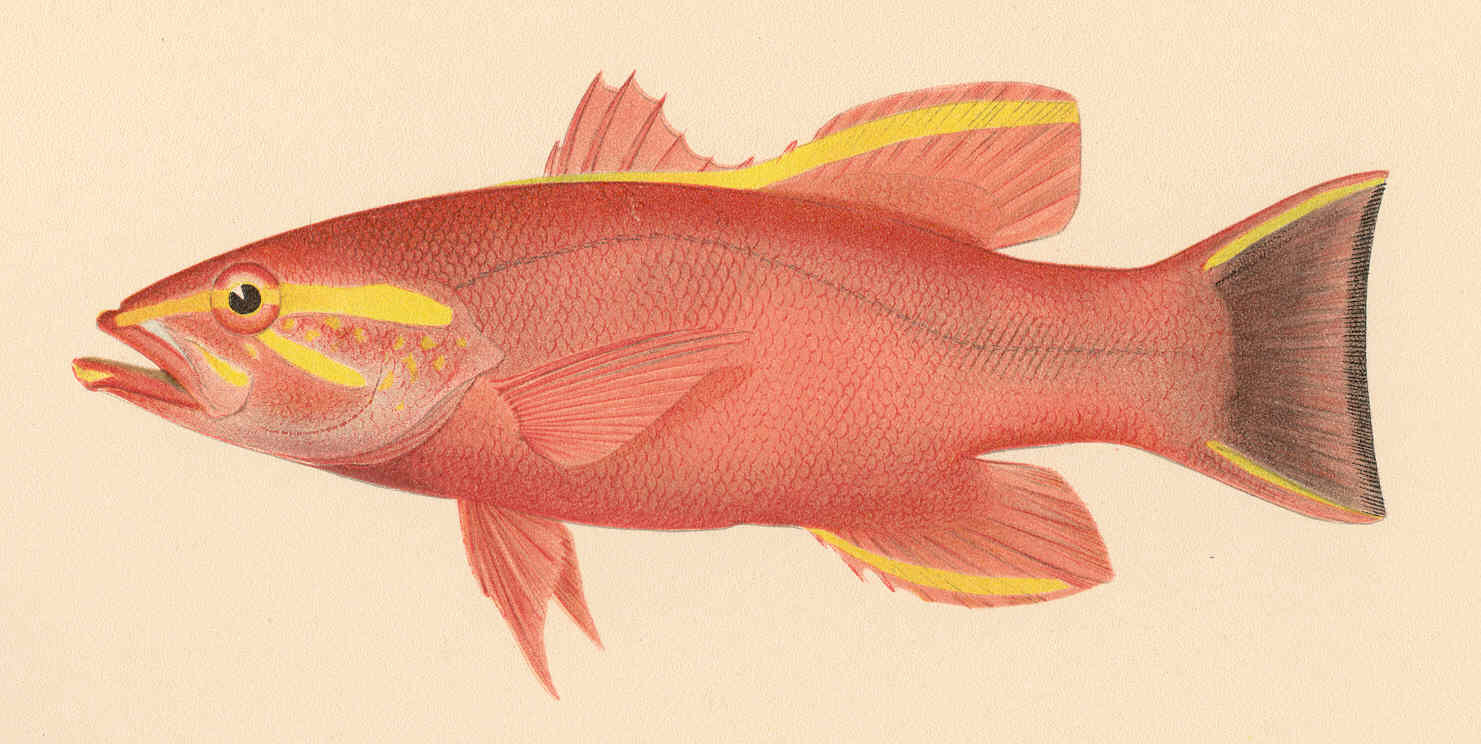 Pikea aurora Jordan & Evermann. Type Subject: Pikea Tag: Fish